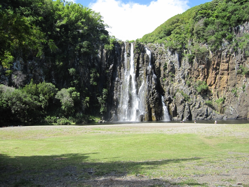 Niagara Falls in Sainte-Suzanne - Reunion Island - january 2012